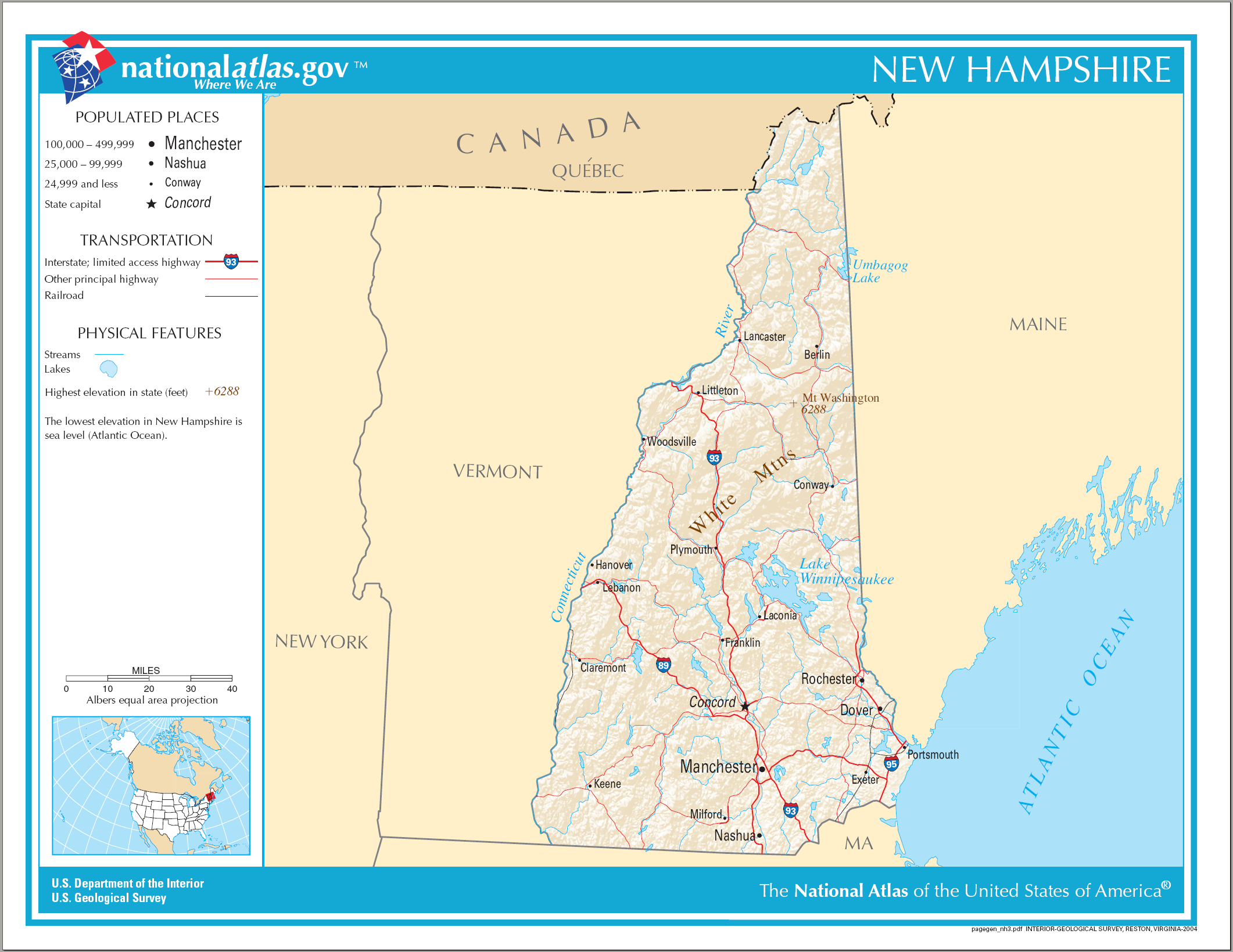 Map of New Hampshire